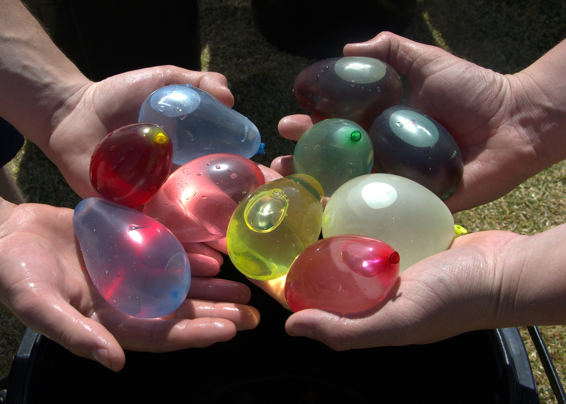 Two people holding a selection of water balloons in their hands.